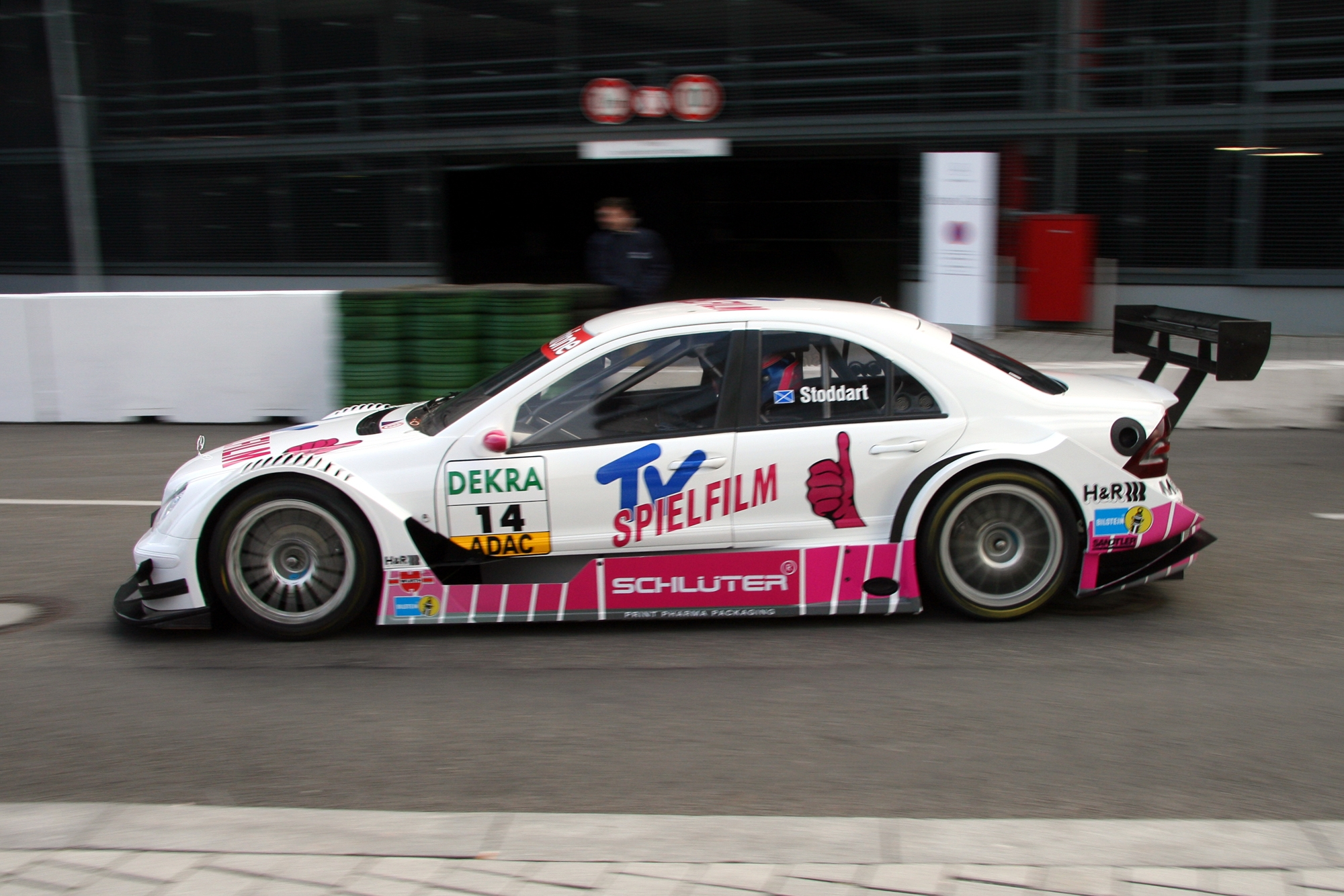 DTM car Mercedes-Benz Season 2007 (C-Class, W203), Susie Stoddart (driver)